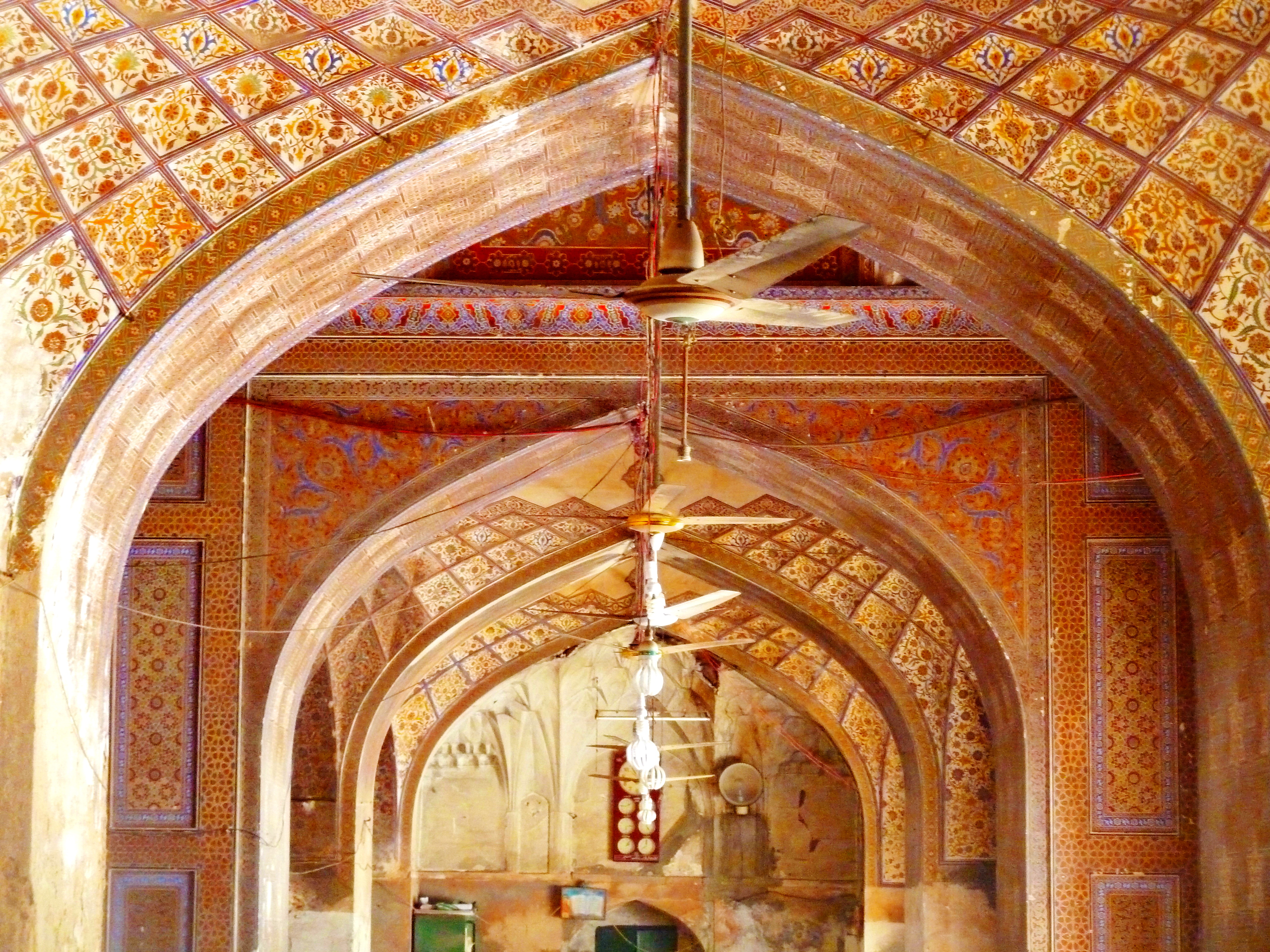 A view of the interior of the Mariyam Zamani Mosque, Lahore This is a photo of a monument in Pakistan identified as the PB-68